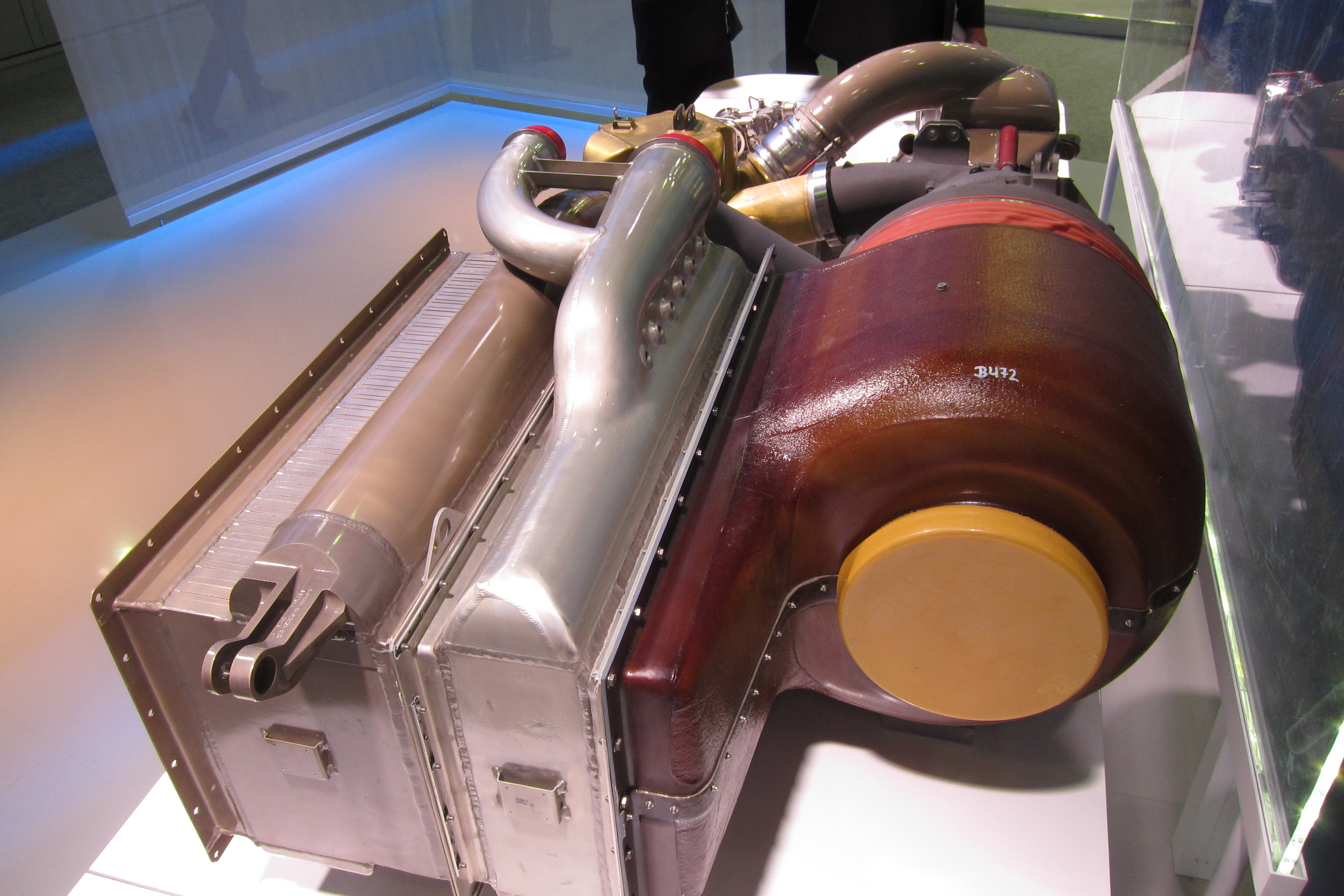 The air conditioning pack of the upcoming Comac C919, manufactured (and here displayed at he Paris Air Show 2013) by Liebherr